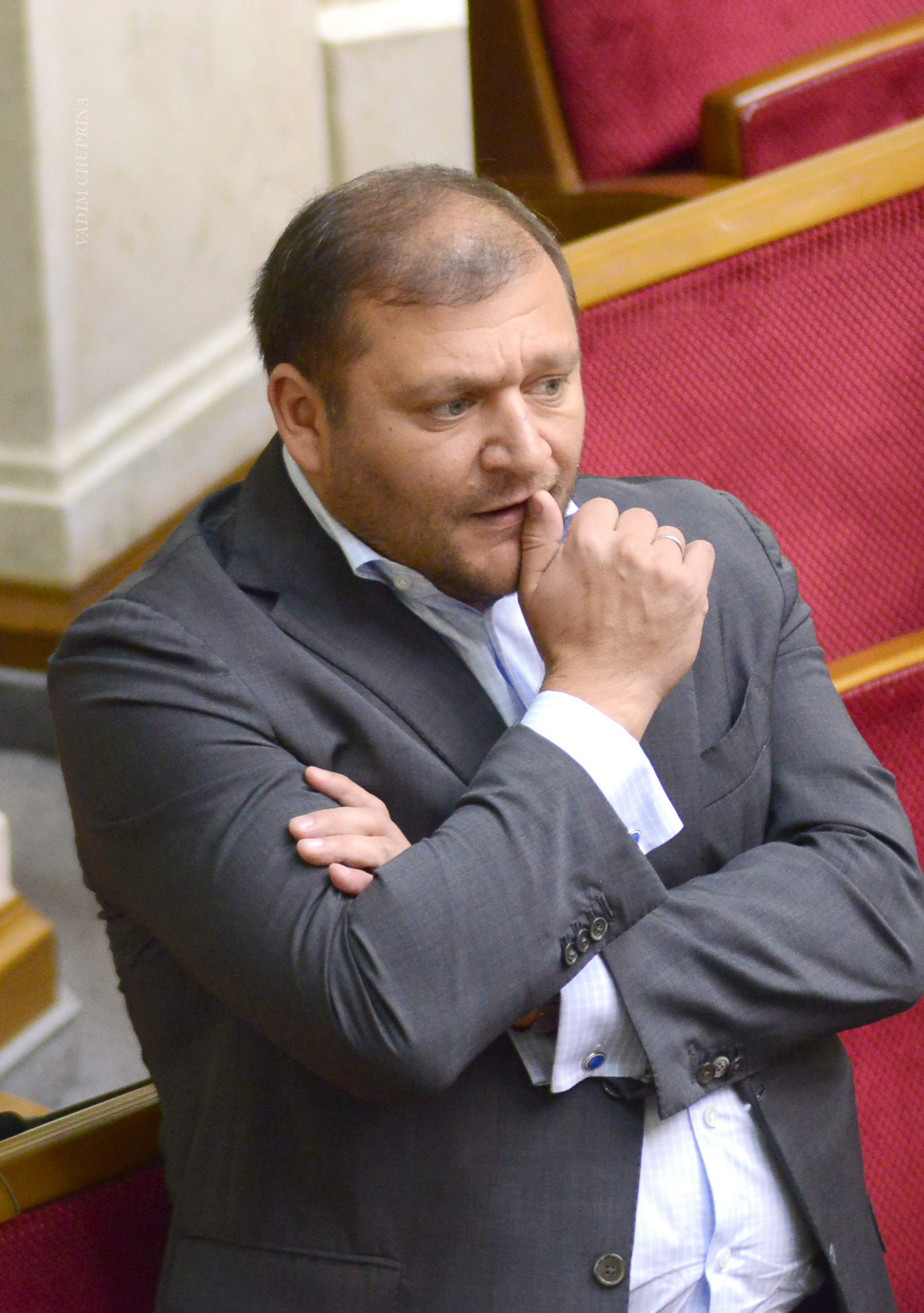 Ukrainian politicians VADIM CHUPRINA